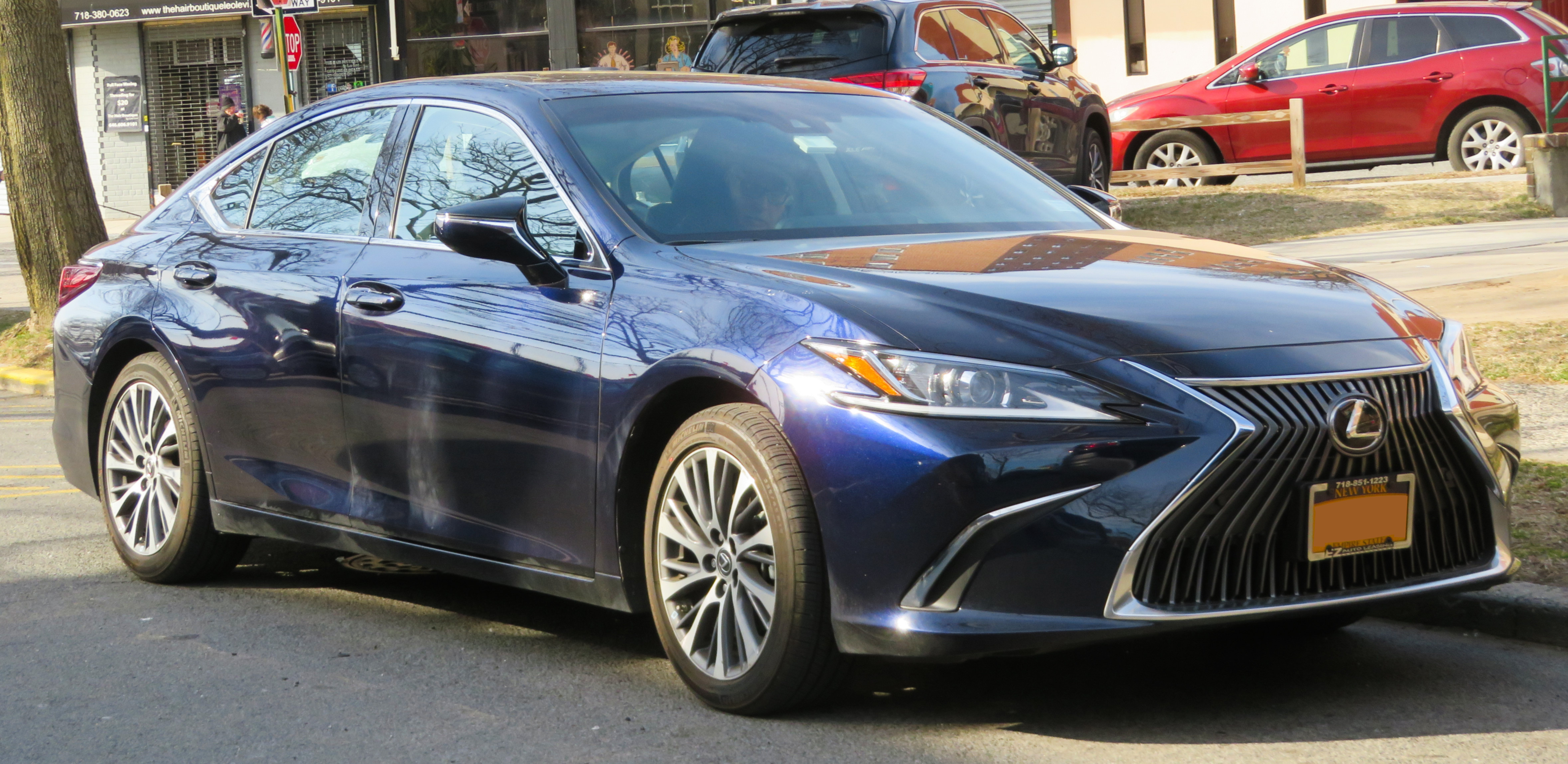 A 2019 Lexus ES 350 3.5L photographed in Queens, New York, USA